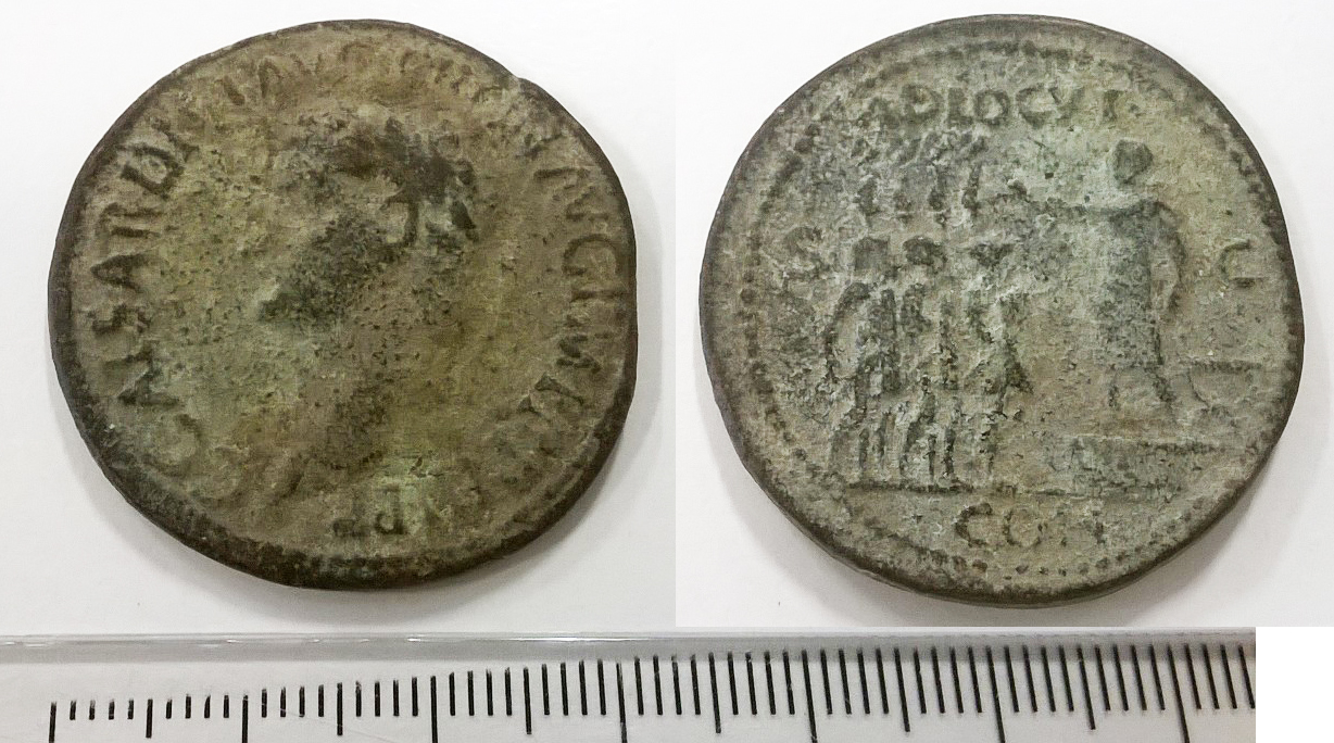 A post-medieval to modern copy taken from a Renaissance struck copy ('Paduan') of a sestertius of Caligula (AD 37-41), originally dating to AD39-40, ADLOCVT COH S C, Gaius addressing soldiers. For original Roman coin, see RIC I, p. 111, no. 40. The original Renaissance piece was most probably struck by Giovanni da Cavino in Padua in the 16th Century AD. Cast copies were subsequently taken, probably mostly for Grand Tourists in subsequent centuries. Full description: Obv; C CAESAR DIVI AVG PRON AVG P M TR P III P P; Laureate head of Caligula (Gaius) left Rev. ADLOCVT, COH, S C; Emperor standing left on platform addressing four soldiers.